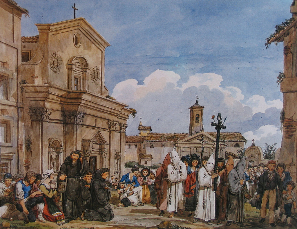 San Francesco di Paola by Achille Pinelli (1834)